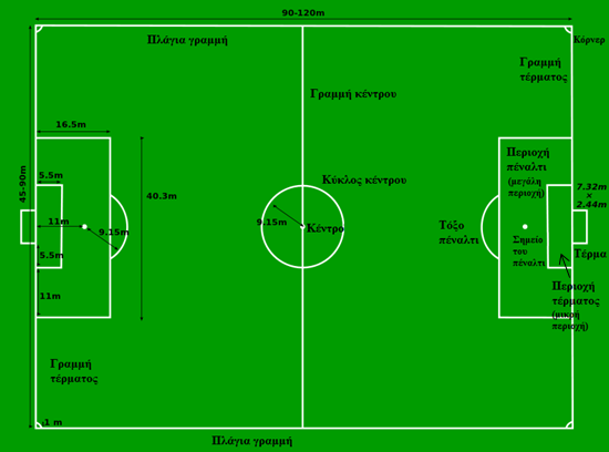 Football pitch metric in Greek language